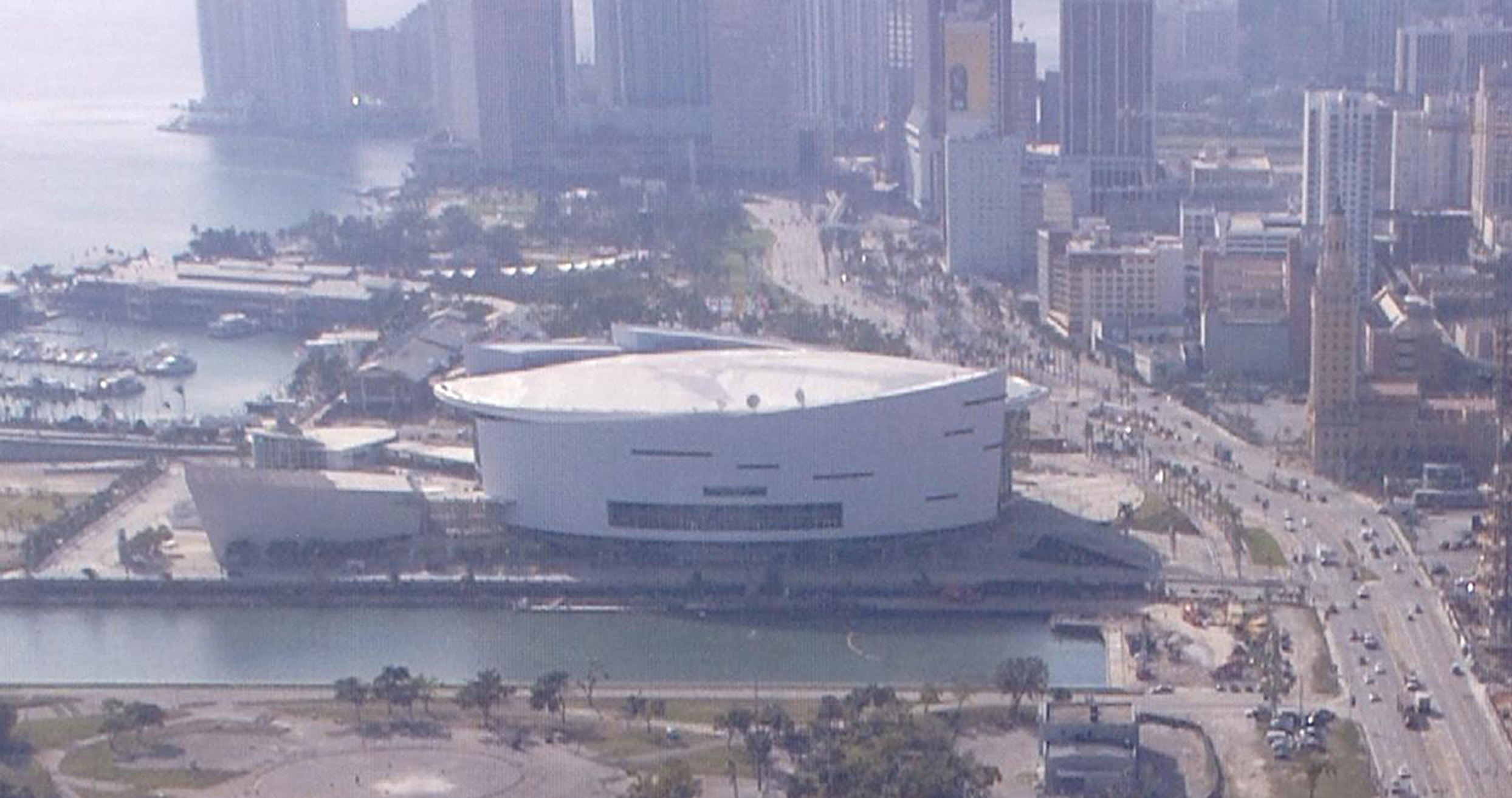 American Airlines Arena on Biscayne Boulevard. US 1 can be seen on the right side of the picture.